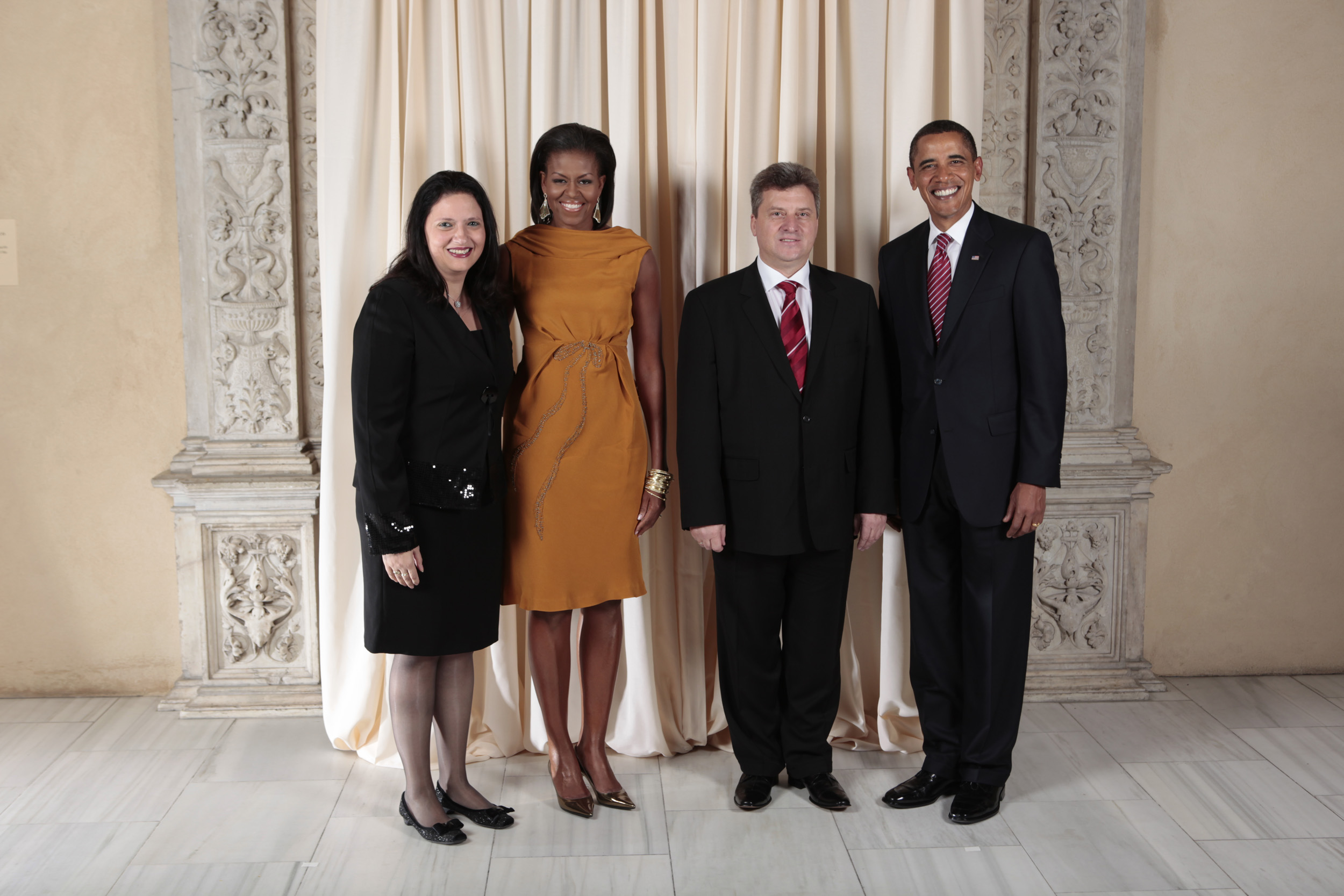 President Barack Obama and First Lady Michelle Obama pose for a photo during a reception at the Metropolitan Museum in New York with Gjorge Ivanov and his wife, Maja Ivanova of Macedonia.